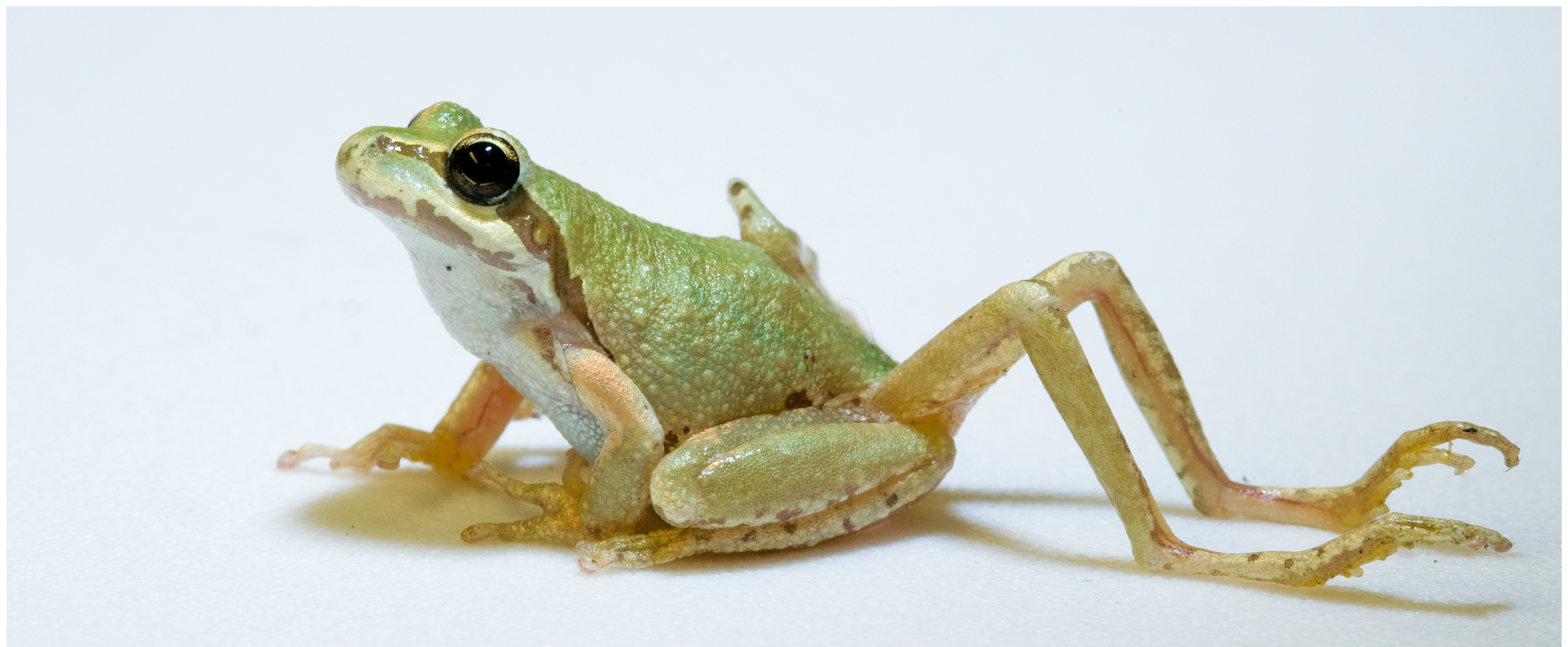 Pacific chorus frog (P. regilla) with parasite-induced (Ribeiroia ondatrae) limb malformation.